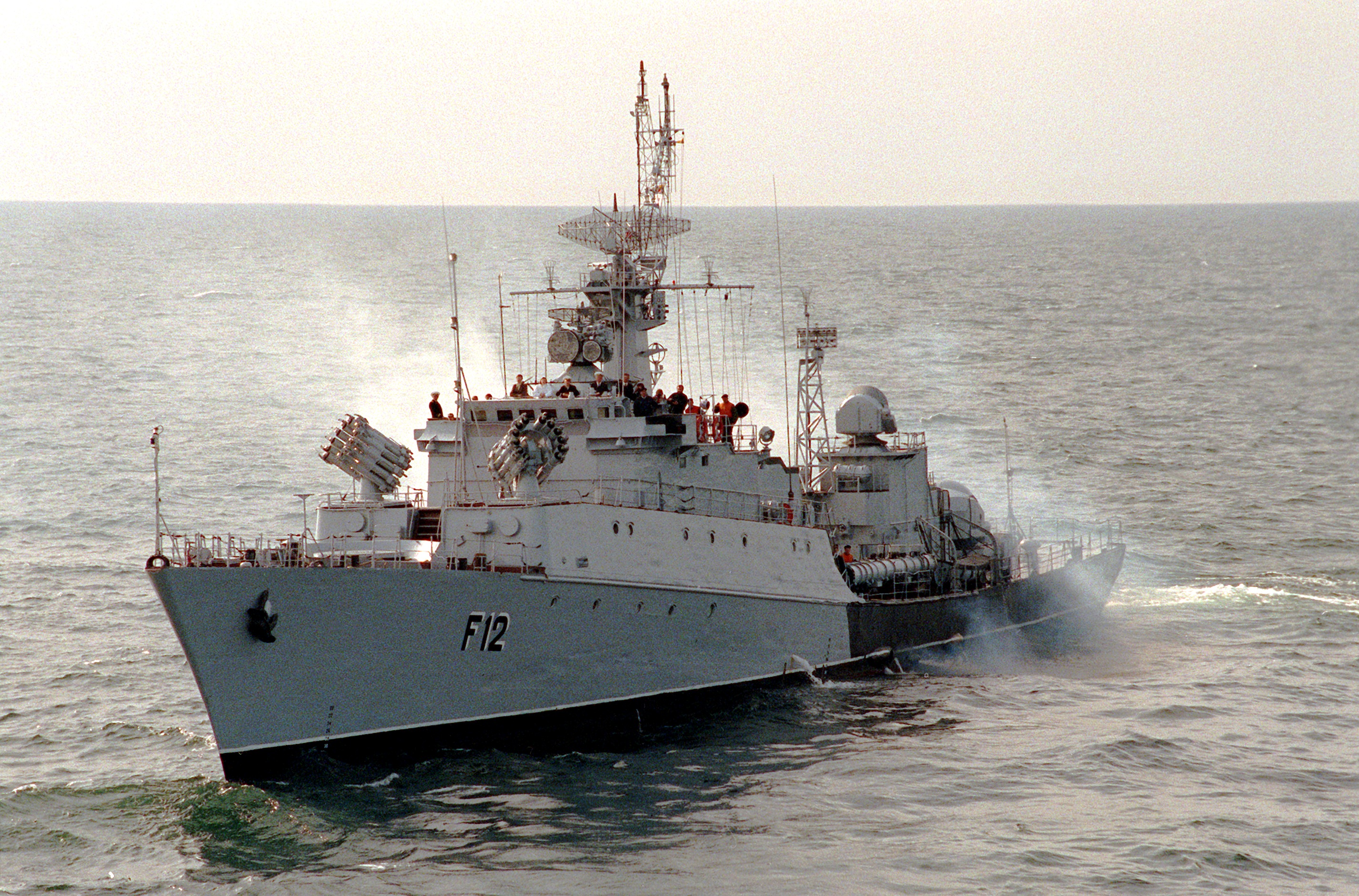 A port bow view of a Lithuanian navy Grisha class frigate F12 Aukštaitis during exercise BALTOPS '93. For the first time in the 22-year history of BALTOPS, the Eastern European countries of Estonia, Latvia, Lithuania, Poland and Russia were invited to participate in the non-military phases of the exercise.